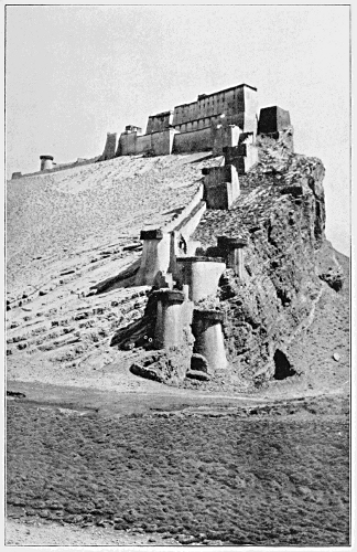 Khamba Dzong. Page 54 from Howard-Bury, C. K. (1922). Mount Everest the Reconnaissance, 1921 (1 ed.). New York, Longman & Green